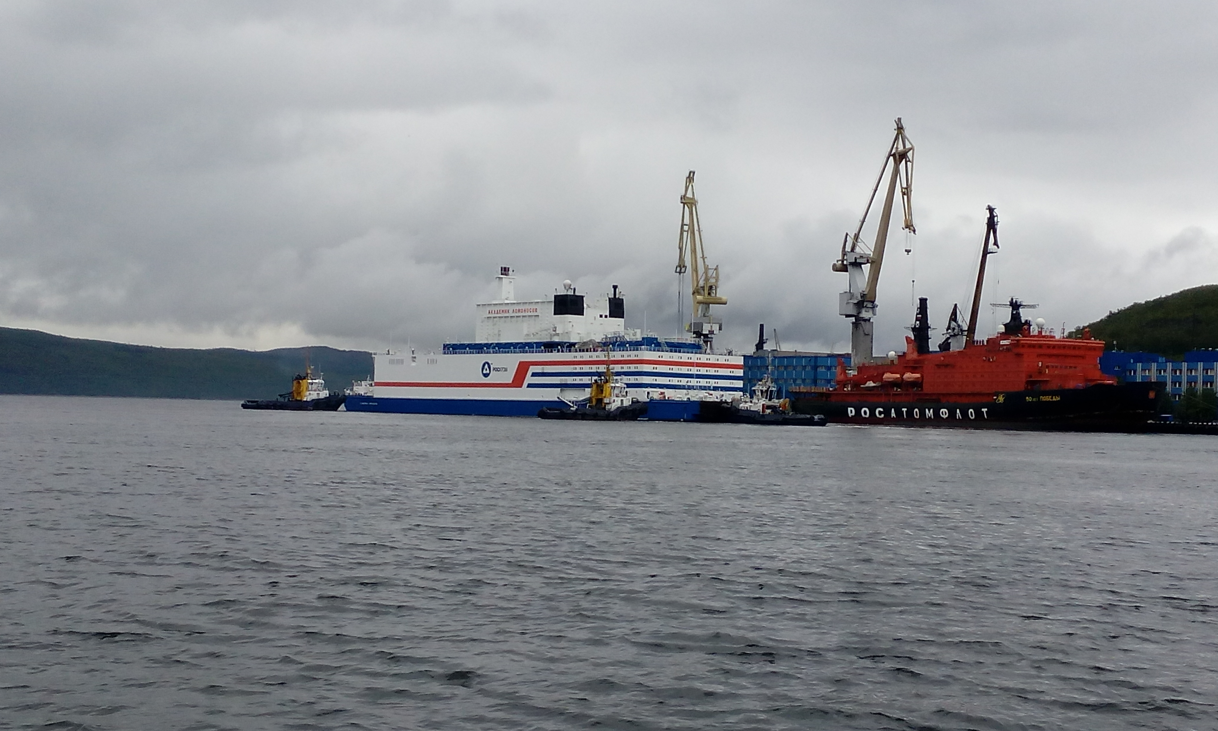 The first Russian floating nuclear power station being transported from Murmansk